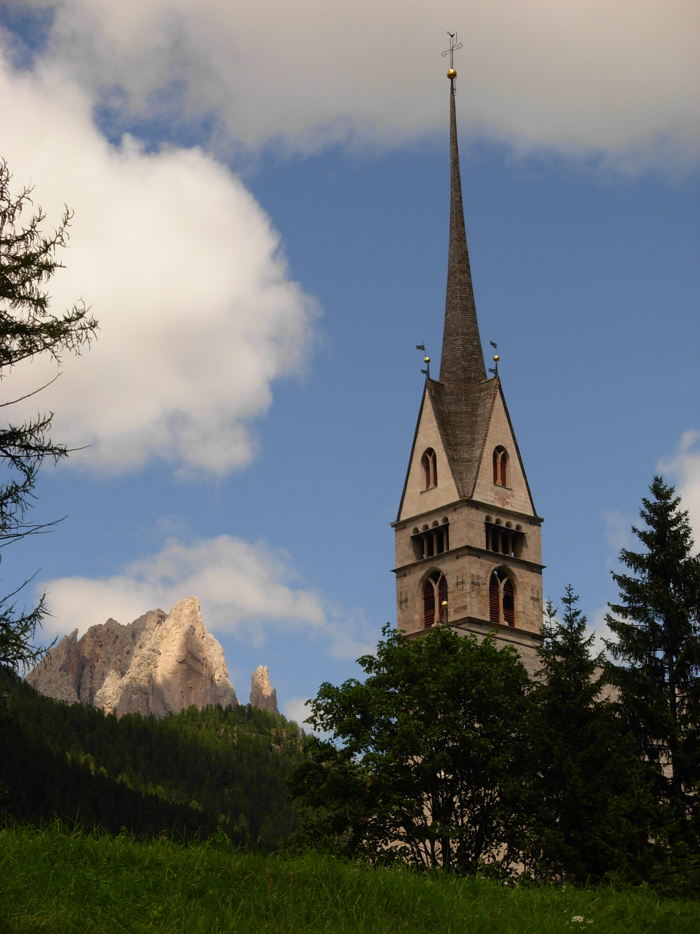 Moena church